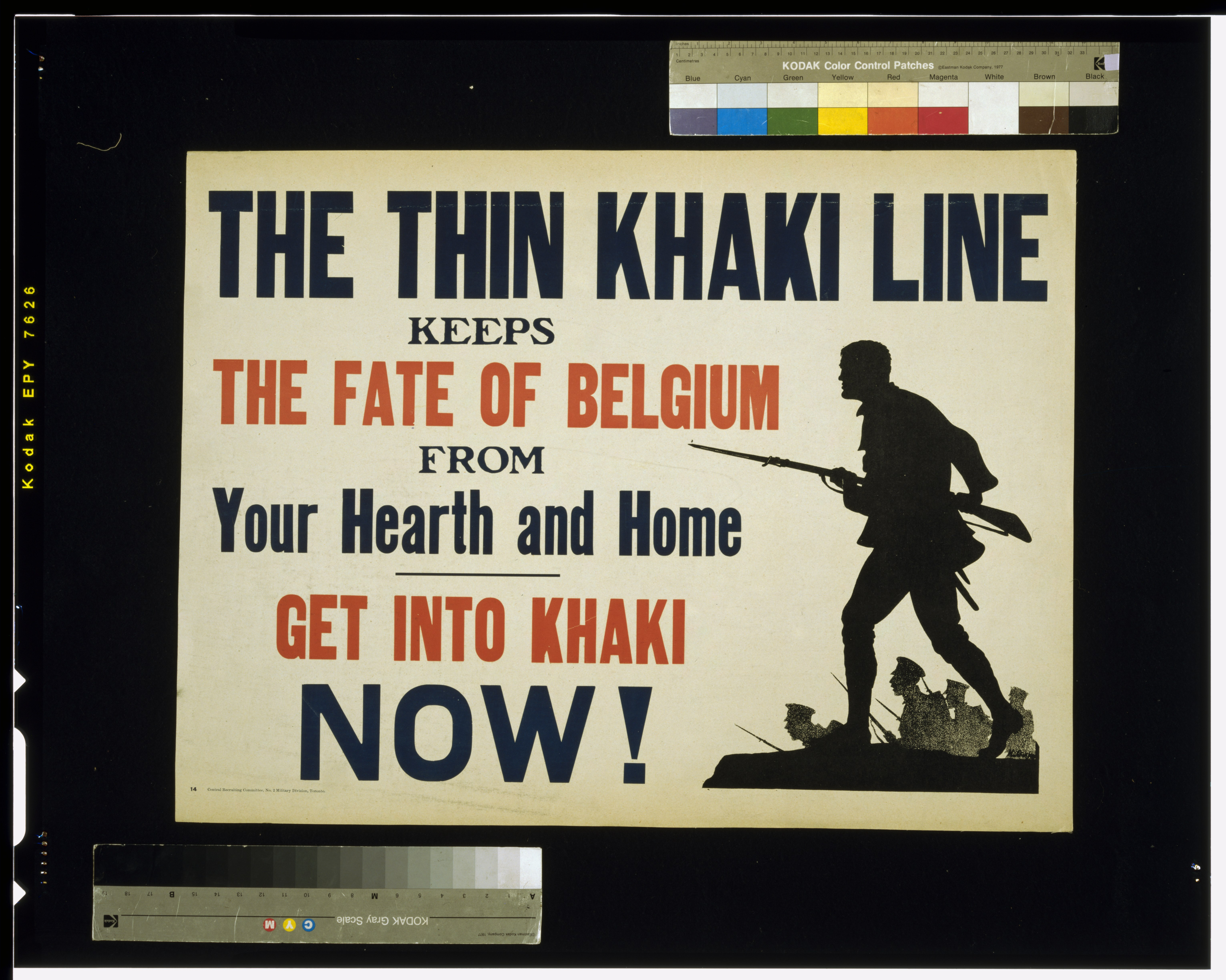 Title: The thin khaki line keeps the fate of Belgium from your hearth and home. Get into khaki now! Abstract/medium: 1 print (poster) : lithograph, color ; 53 x 70 cm.